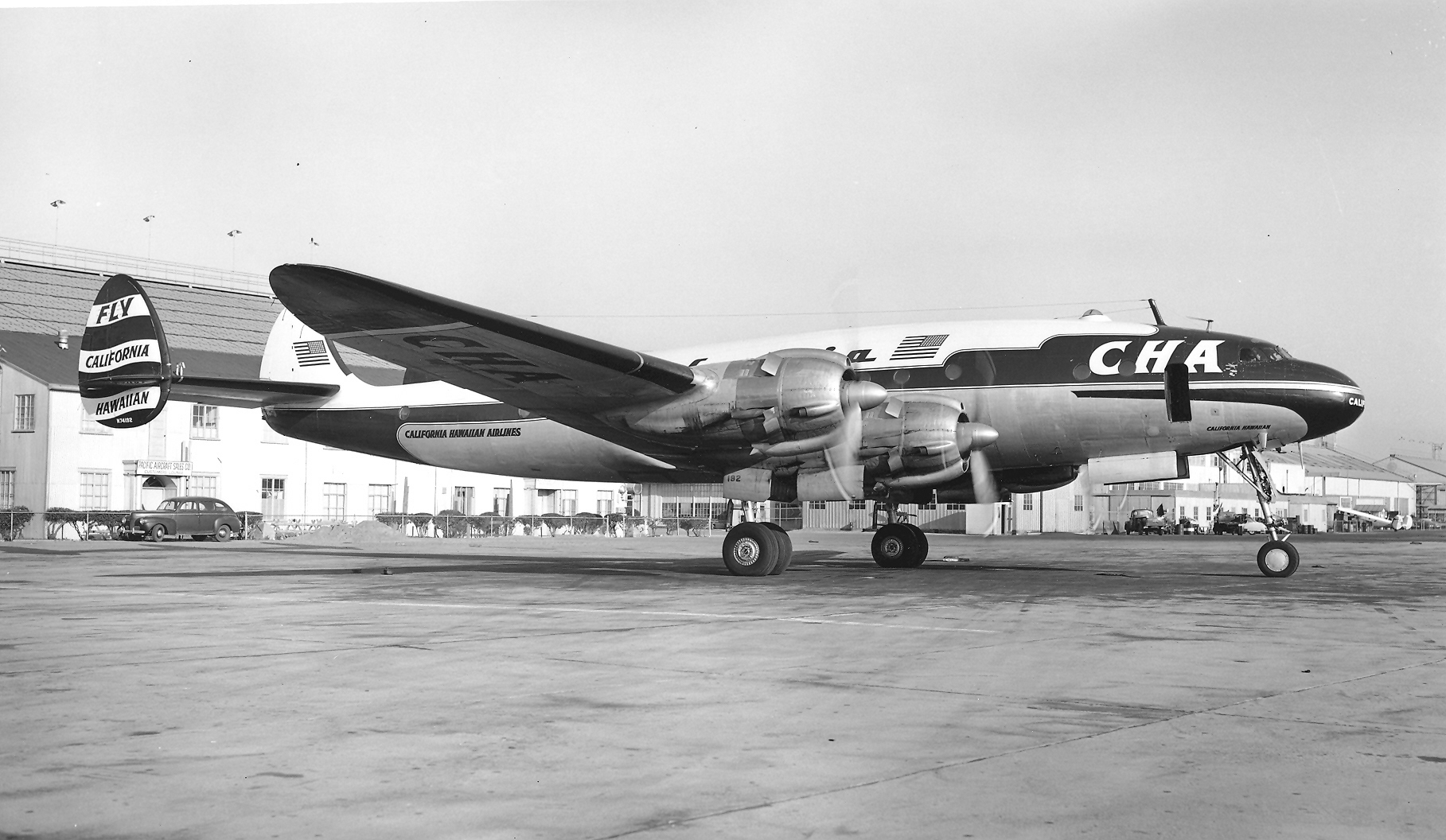 California Hawiian Airlines. Oakland, February 1953.